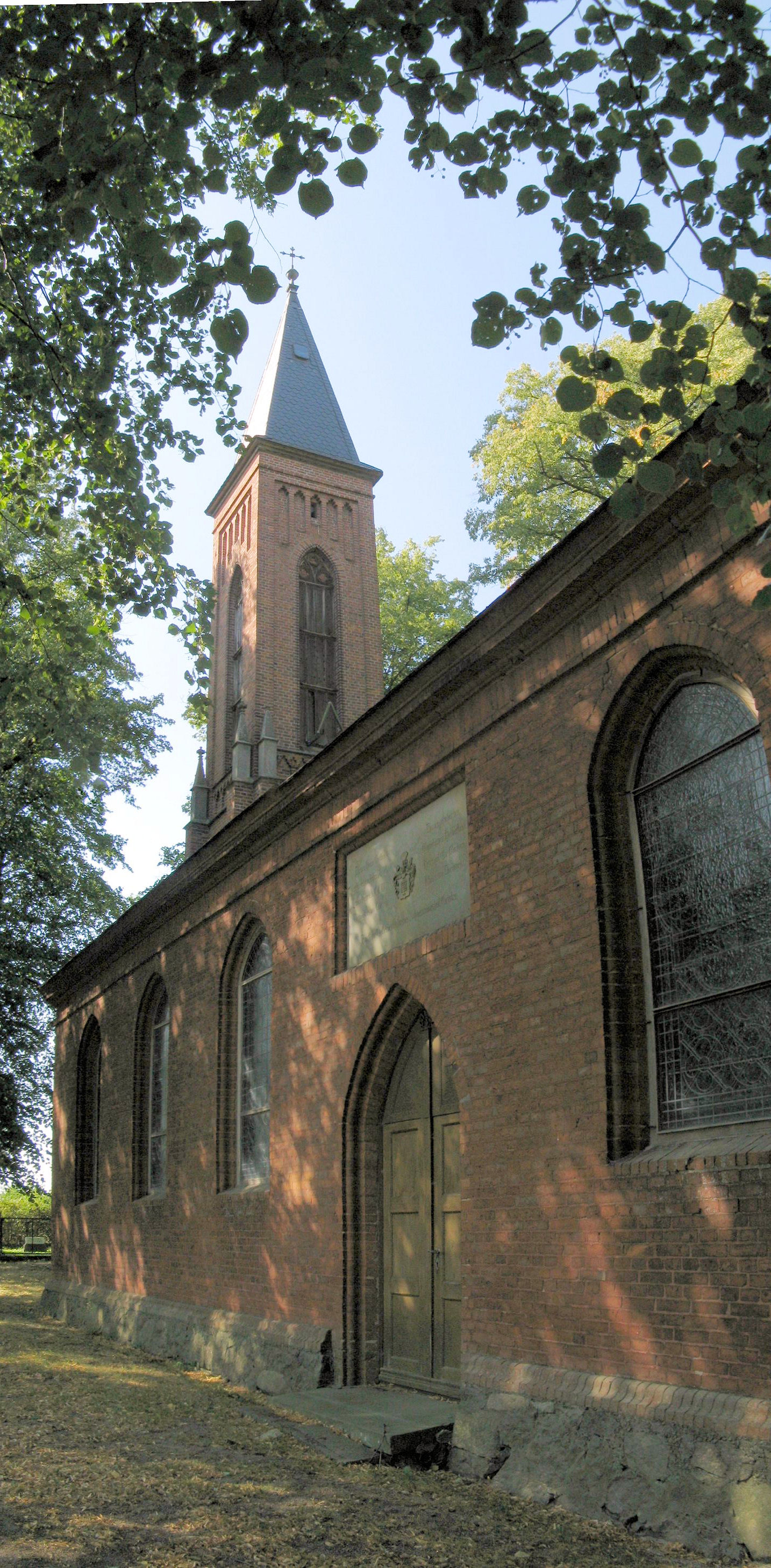 Church in Groß Markow, disctrict Güstrow, Mecklenburg-Vorpommern, Germany